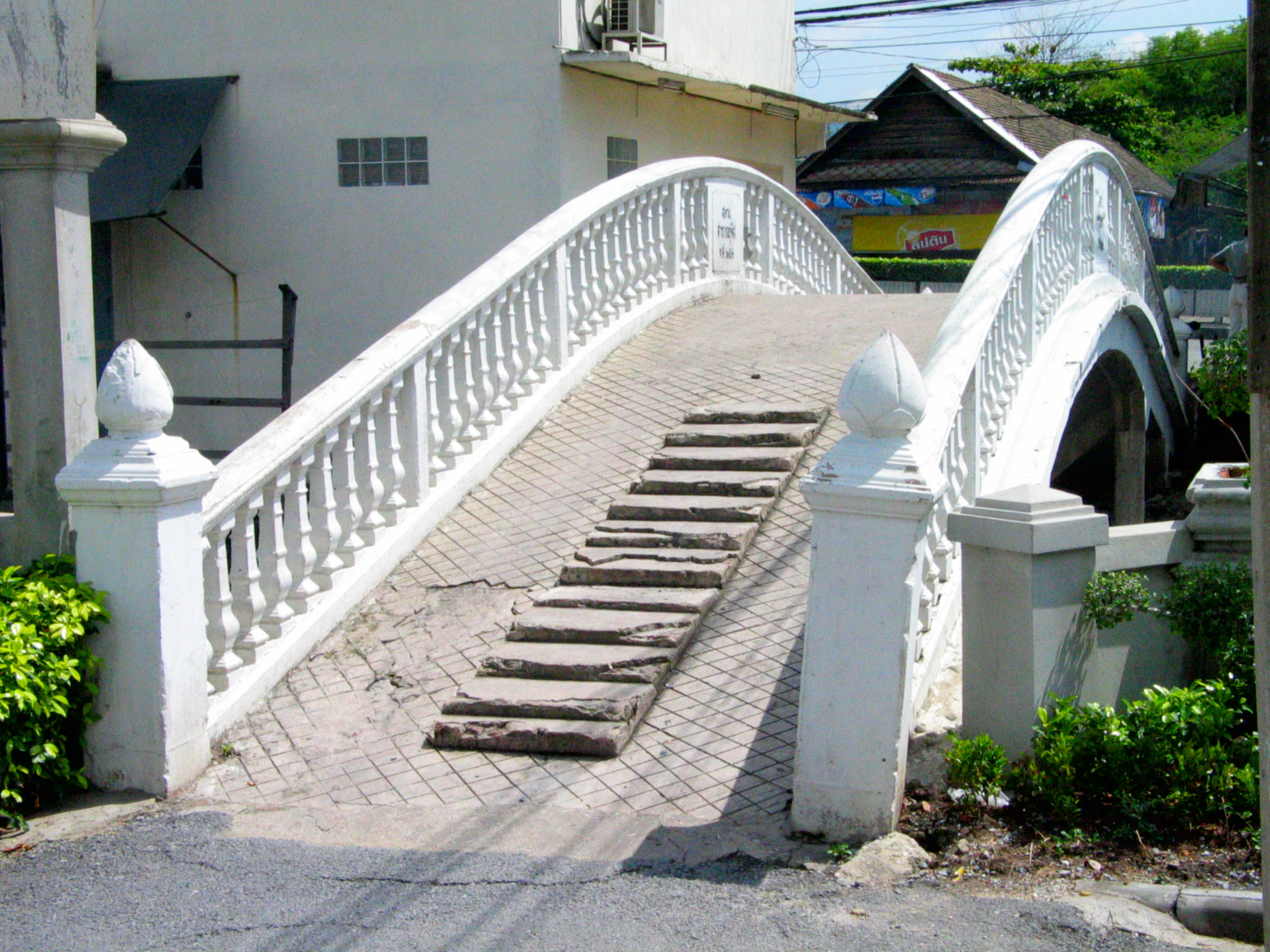 Small bridge in front of wat Phichaiyat, Thonburi, Thailand.